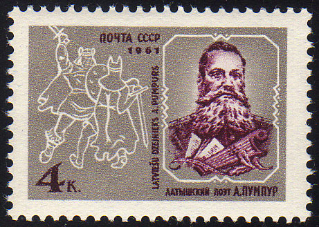 Postage stamp issued by the Soviet Union 1961 depicting Andrejs Pumpurs.